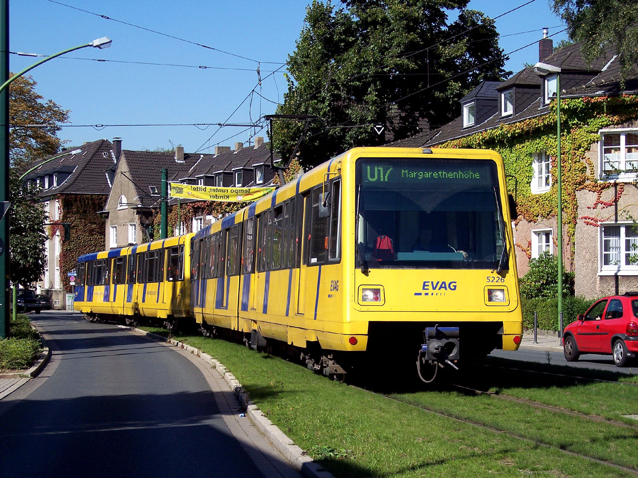 EVAG of Essen, Germany, ex-Docklands Light Railway P89 number 5226 arrives at Margarethenhöhe terminus with a U17 service from Gelsenkirchen-Horst.